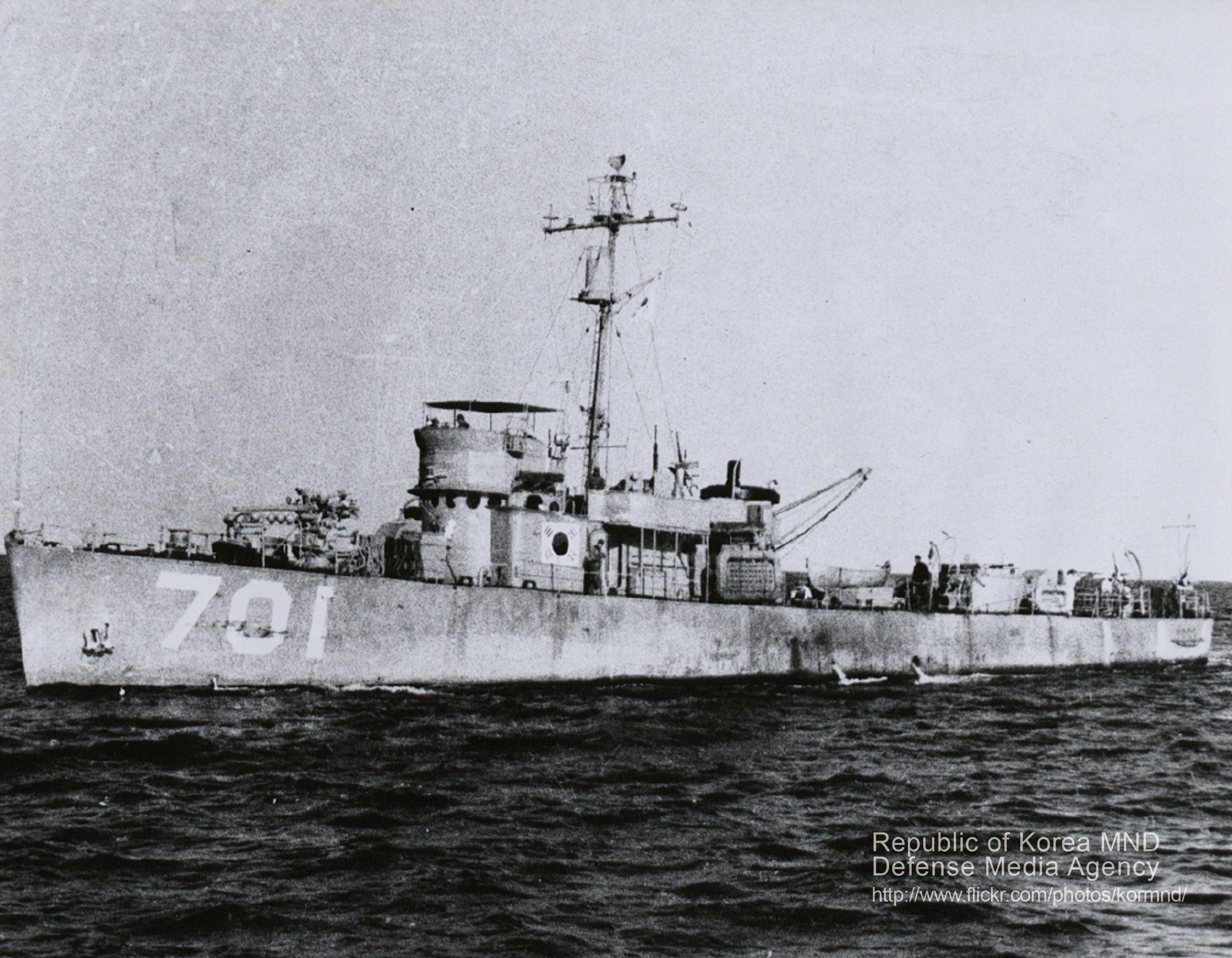 2010 국방화보 Rep. of Korea, Defense Photo Magazine 대한해협 해전에서 맹활약한 해군 백두산함. ROK Navy ship, Baekdusan, which took a very active part in the battle of Strait of Korea.